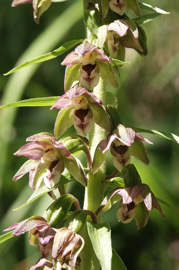 Epipactis distans, (syn. Epipactis helleborine subsp. distans) Berchtesgadener Alpen, Germany